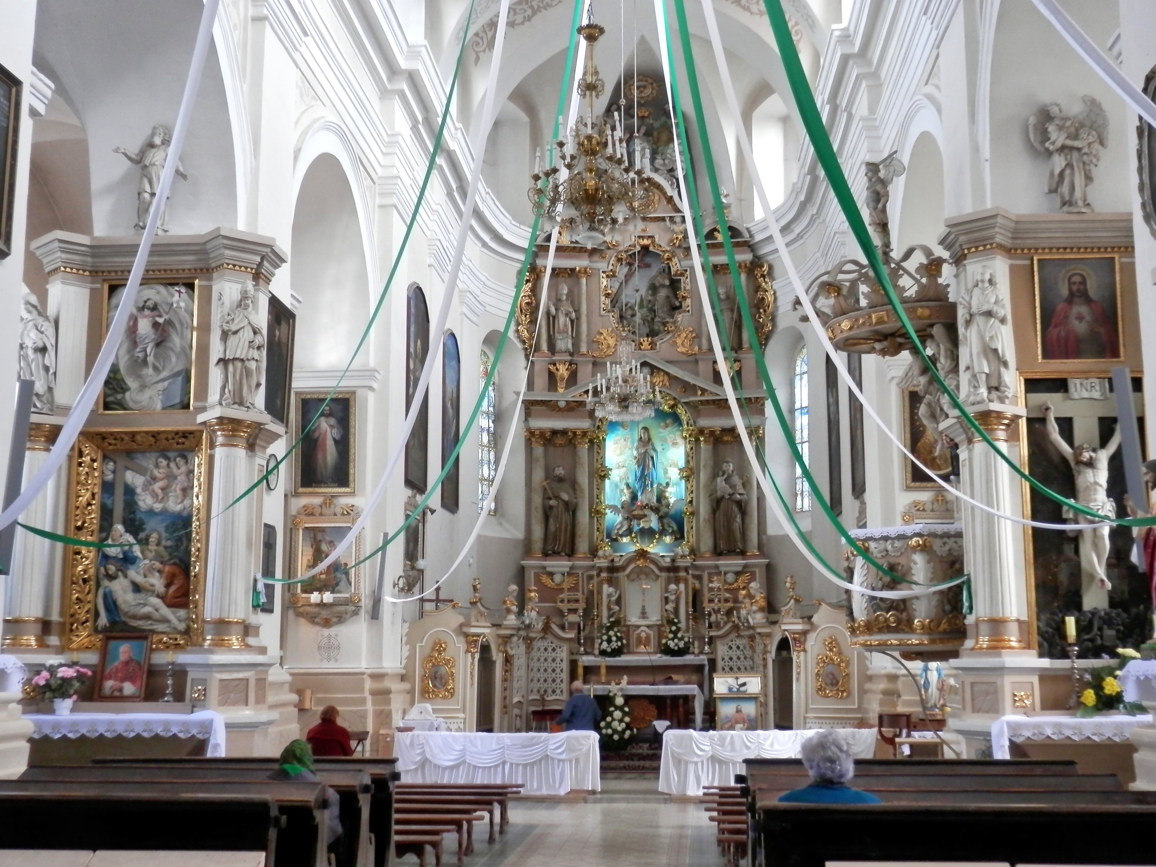 Franciscan church of St. Mary of the Angels in Hrodna